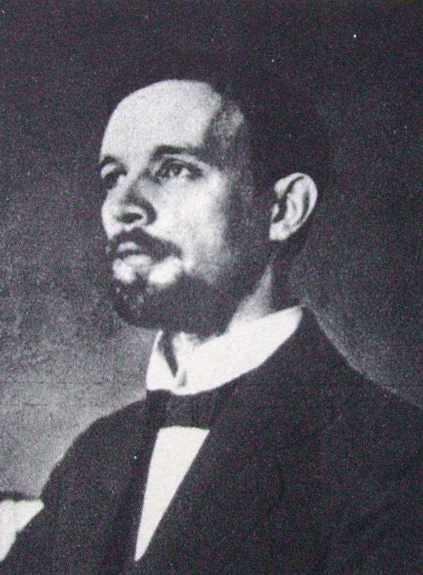 Picture of Lewi Pethrus, Swedish reverend